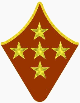 Rank insignia of the Workers' and Peasants' Red Army (WPRA), here "General of the Army" (OF9) – collar patch (big / greatcoat) Army 1940 – 1943.